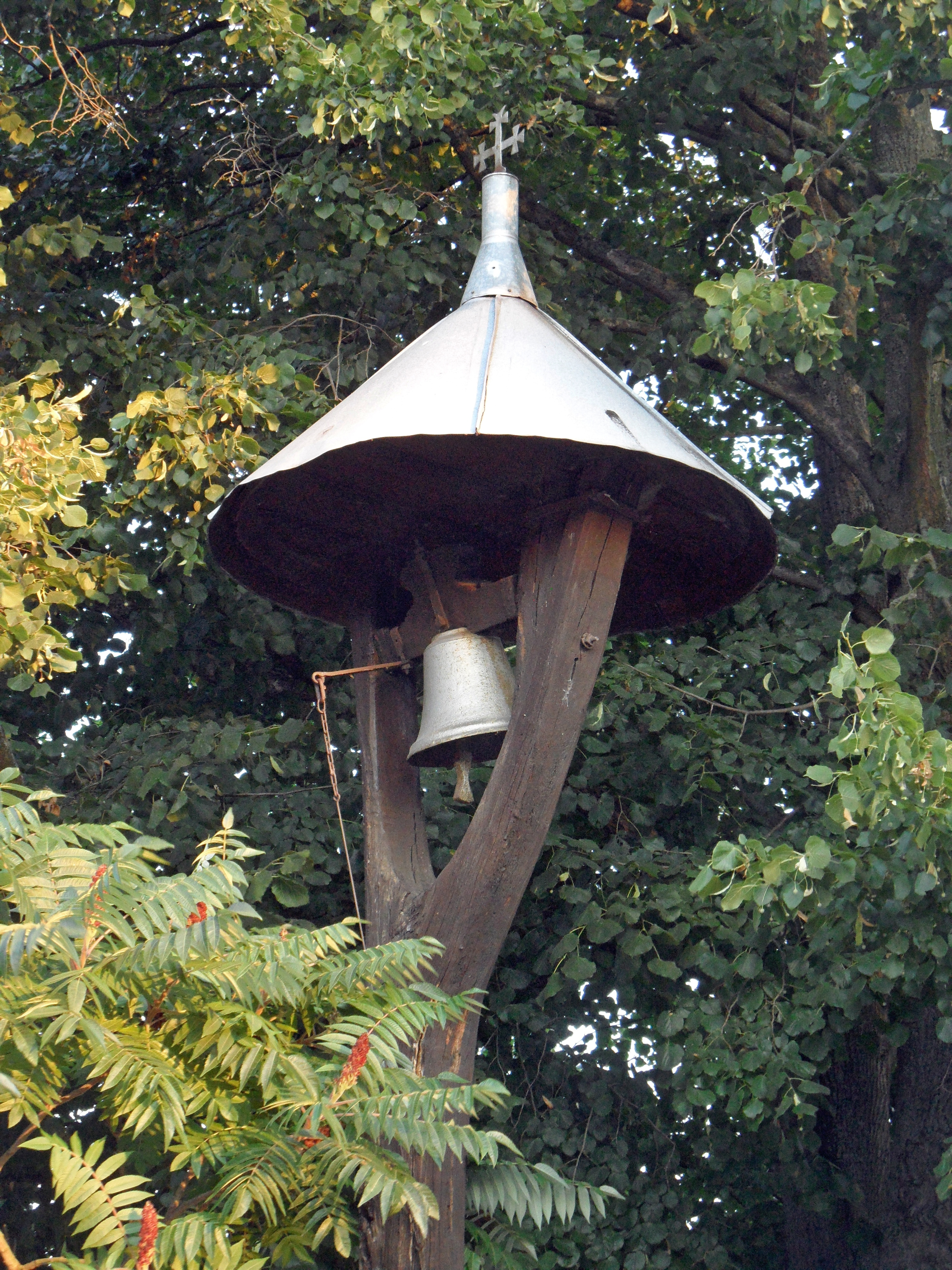 Ždánice (Vilémov) F. Detail of Tower Bell. Havlíčkův Brod District, the Czech Republic.